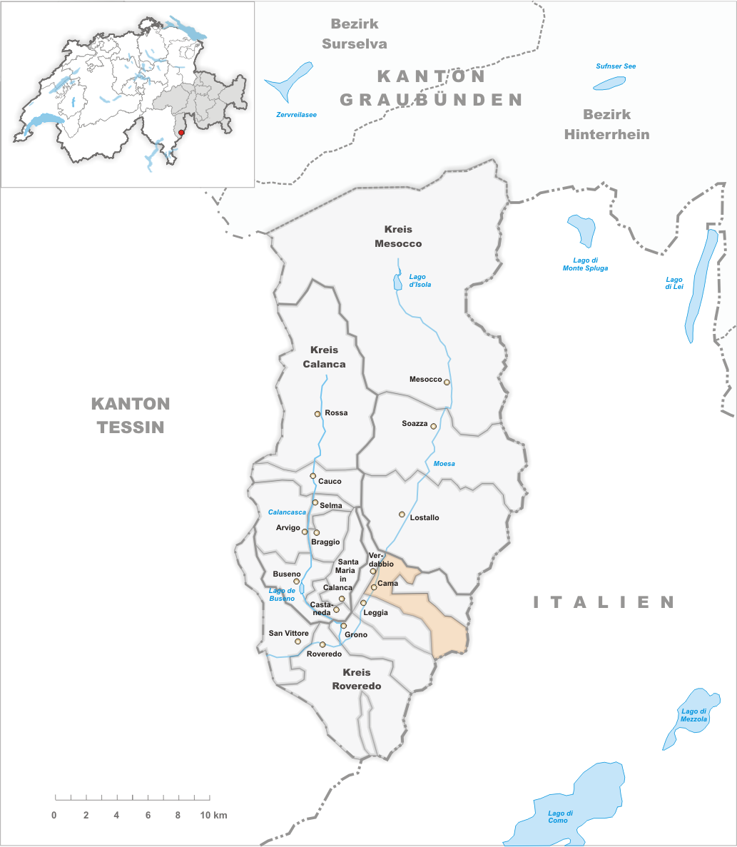 Municipality Cama